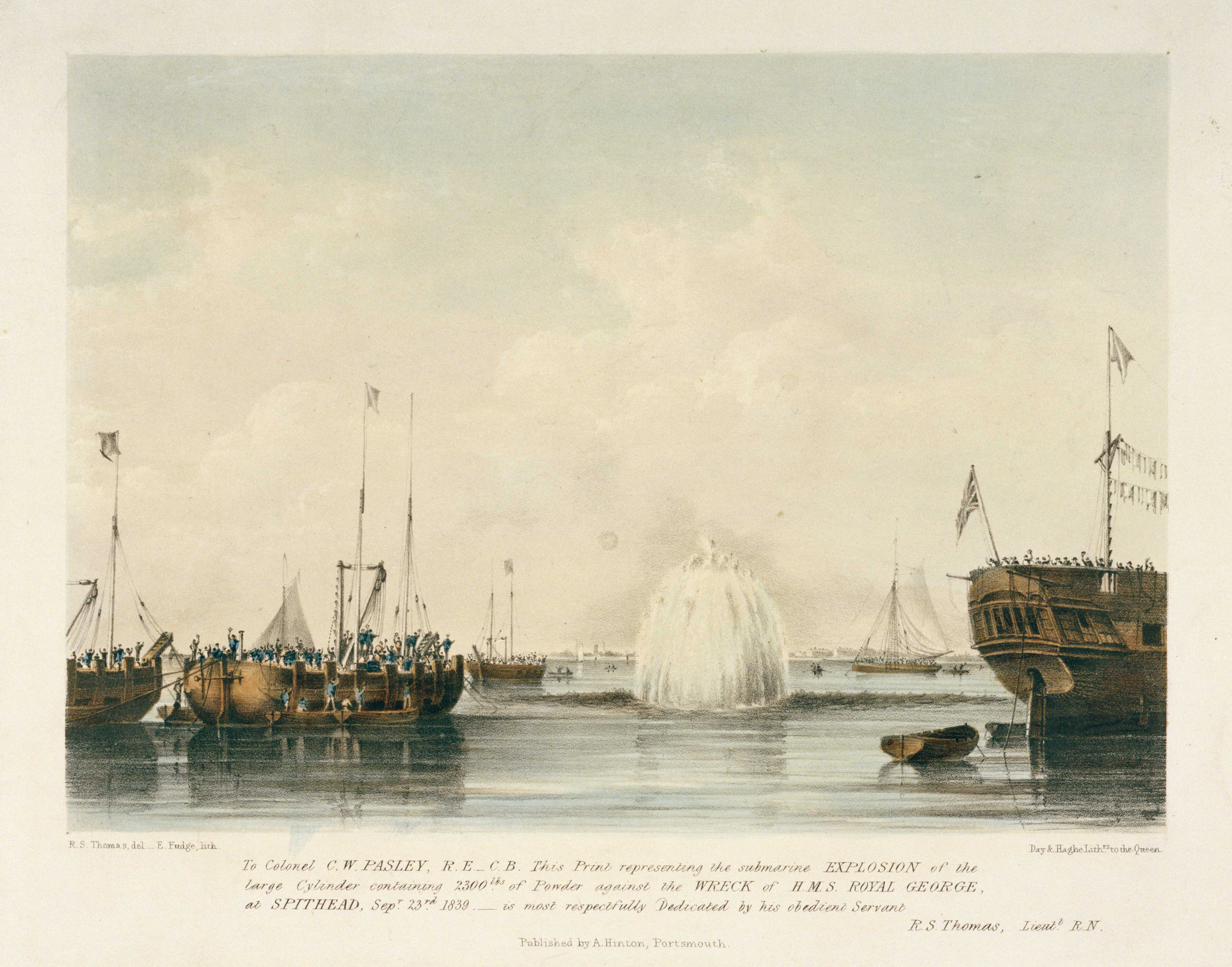 To Colonel C.W. Pasley, R.E.C.B. This print representing the submarine explosion of the large cylinder containing 2300 lbs of Powder against the wreck of H.M.S. Royal George, at Spithead, Sepr. 23rd 1839 R.S. Thomas, Lieutt R.N Print Mount: 225 mm x 285 mm